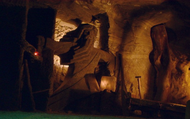 Poland, Wieliczka - Skarbnik (Mine Ghost) in a salt mine.